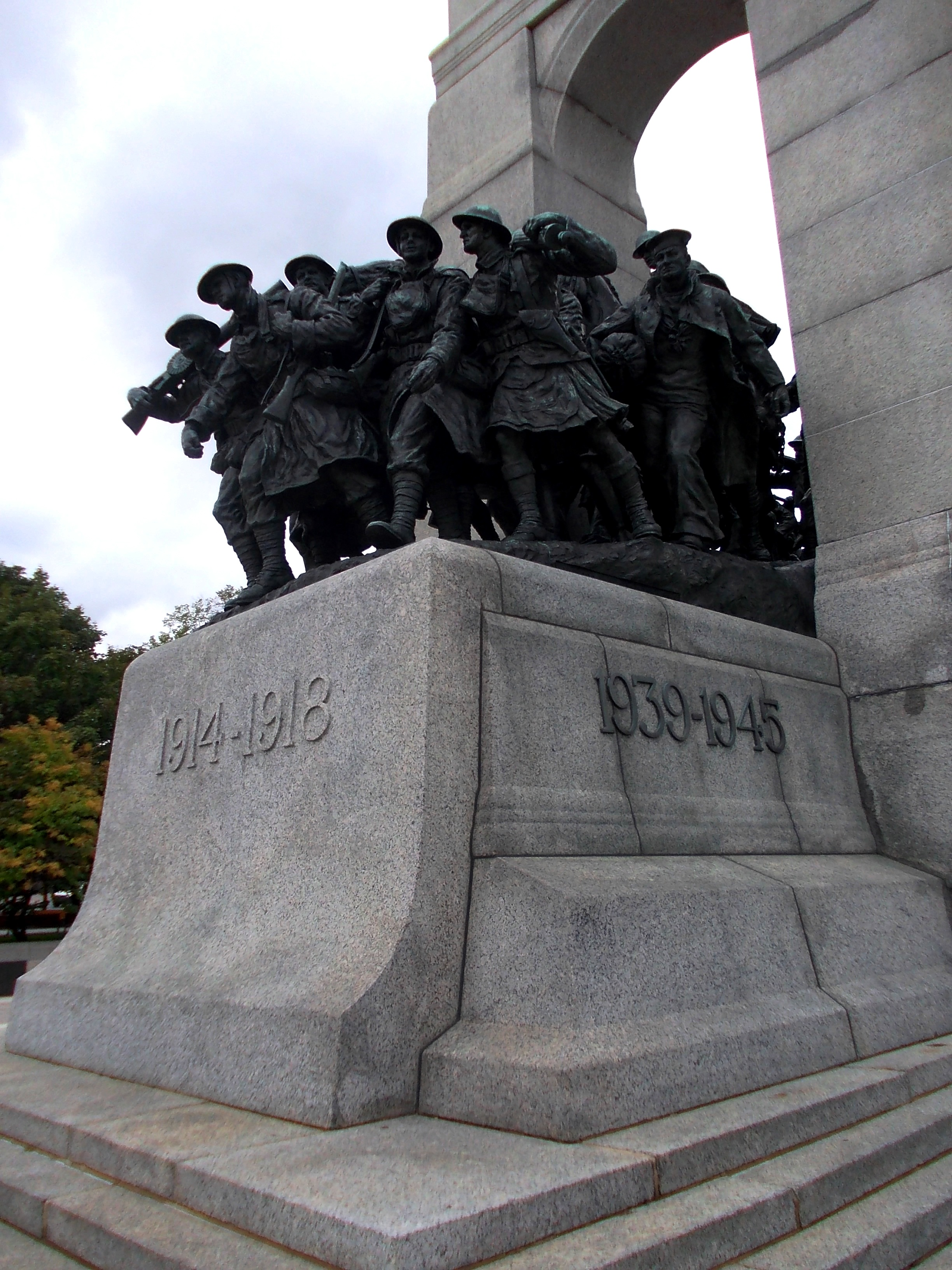 National War Memorial (Ottawa)